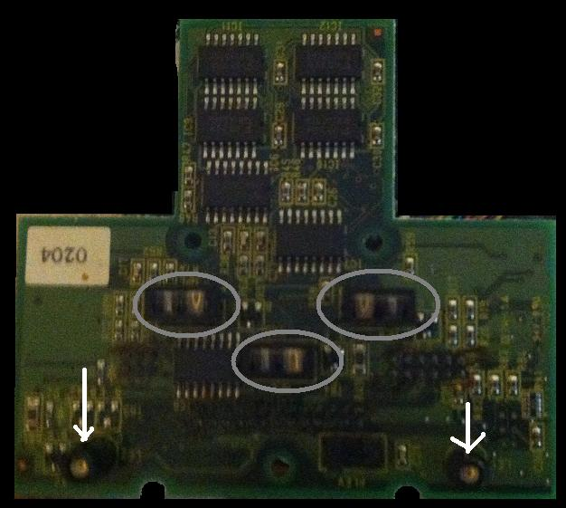 Circuit of a typical United States bill validator with the camera and switches pointed out.